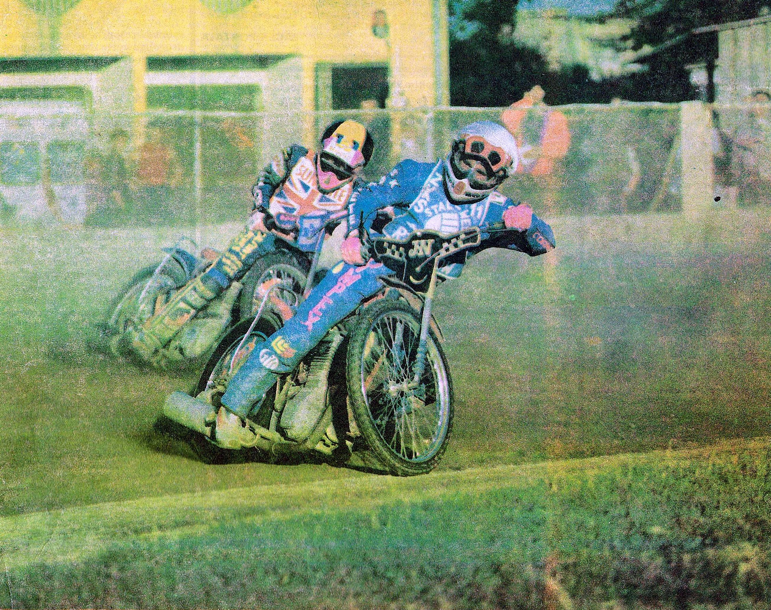 Jeremy Doncaster (yellow-black helmet) and Jan Krzystyniak. Speedway. Gniezno, Poland 1991.